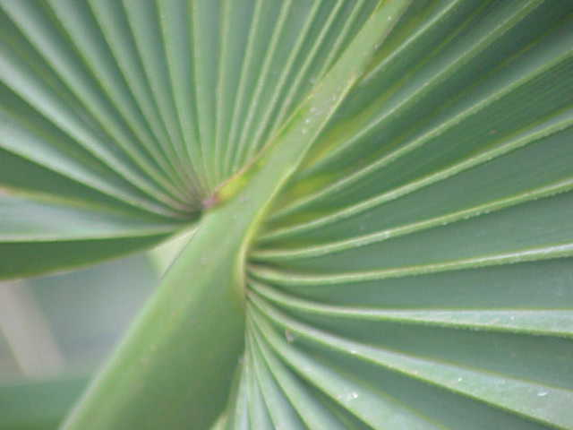 Species: Sabal minor Family: Arecaceae Image No. 2